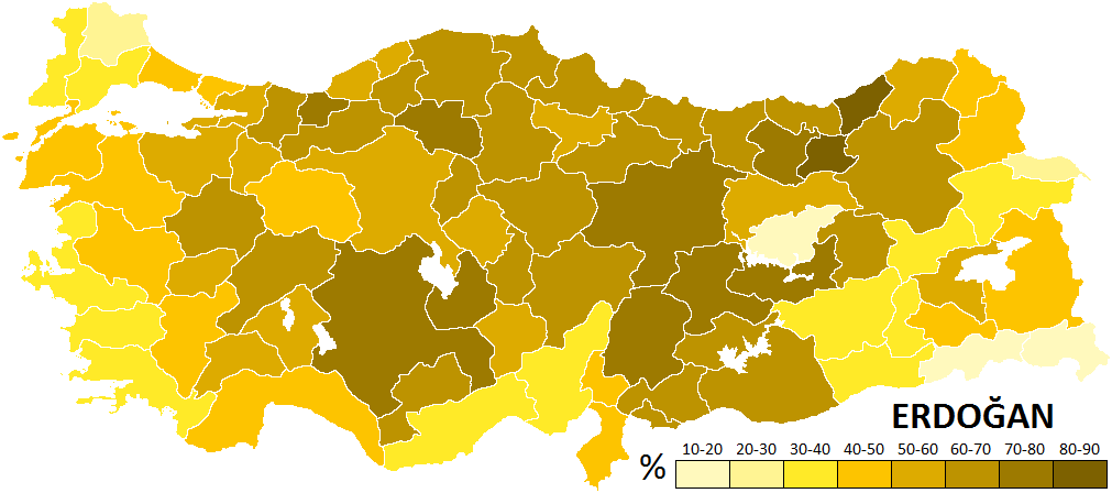 Results obtained by Recep Tayyip Erdoğan in the 2014 Presidential Elections in Turkey, by Provinces